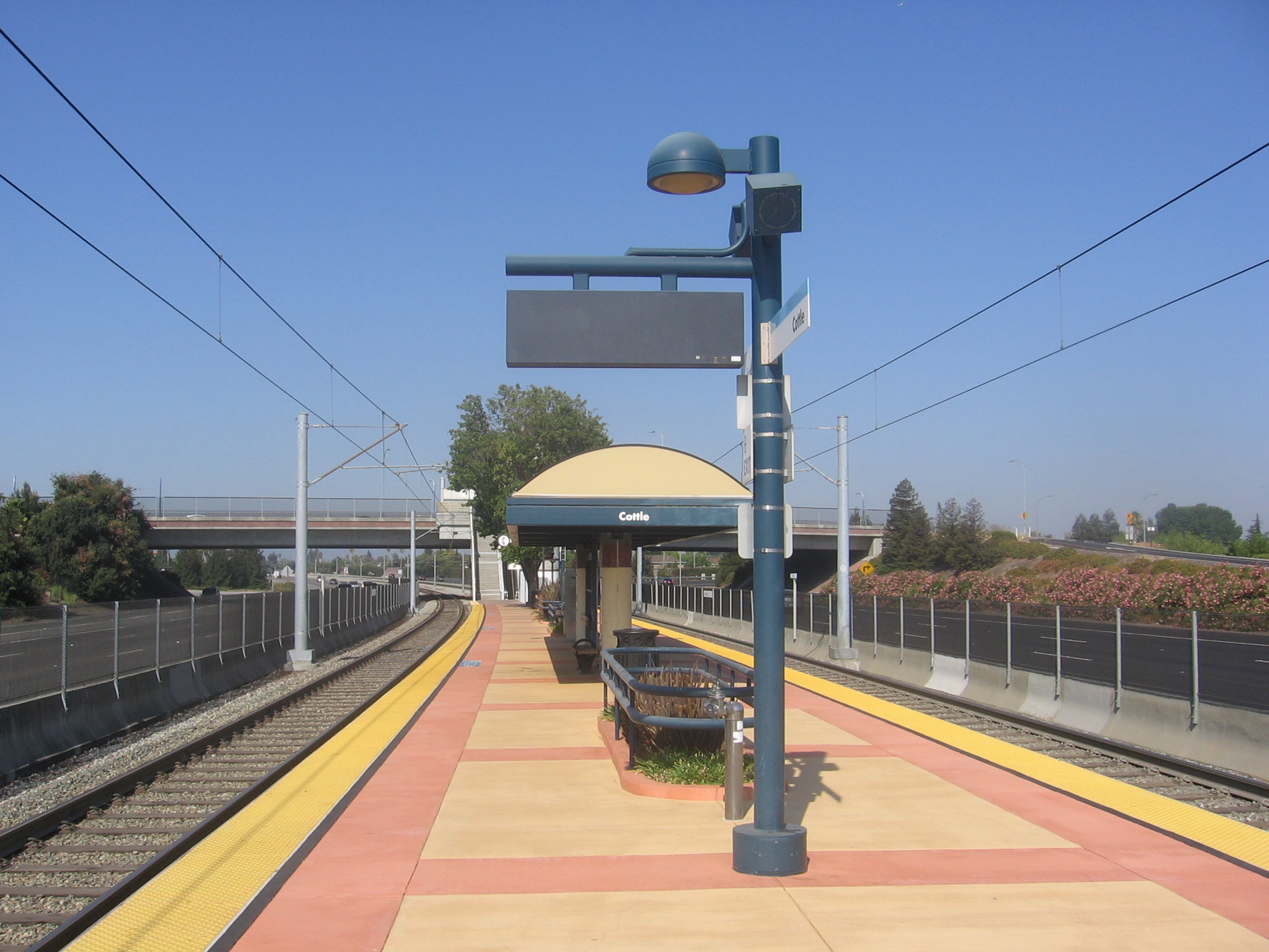 The Cottle (VTA) light rail station in San José, California, USA.